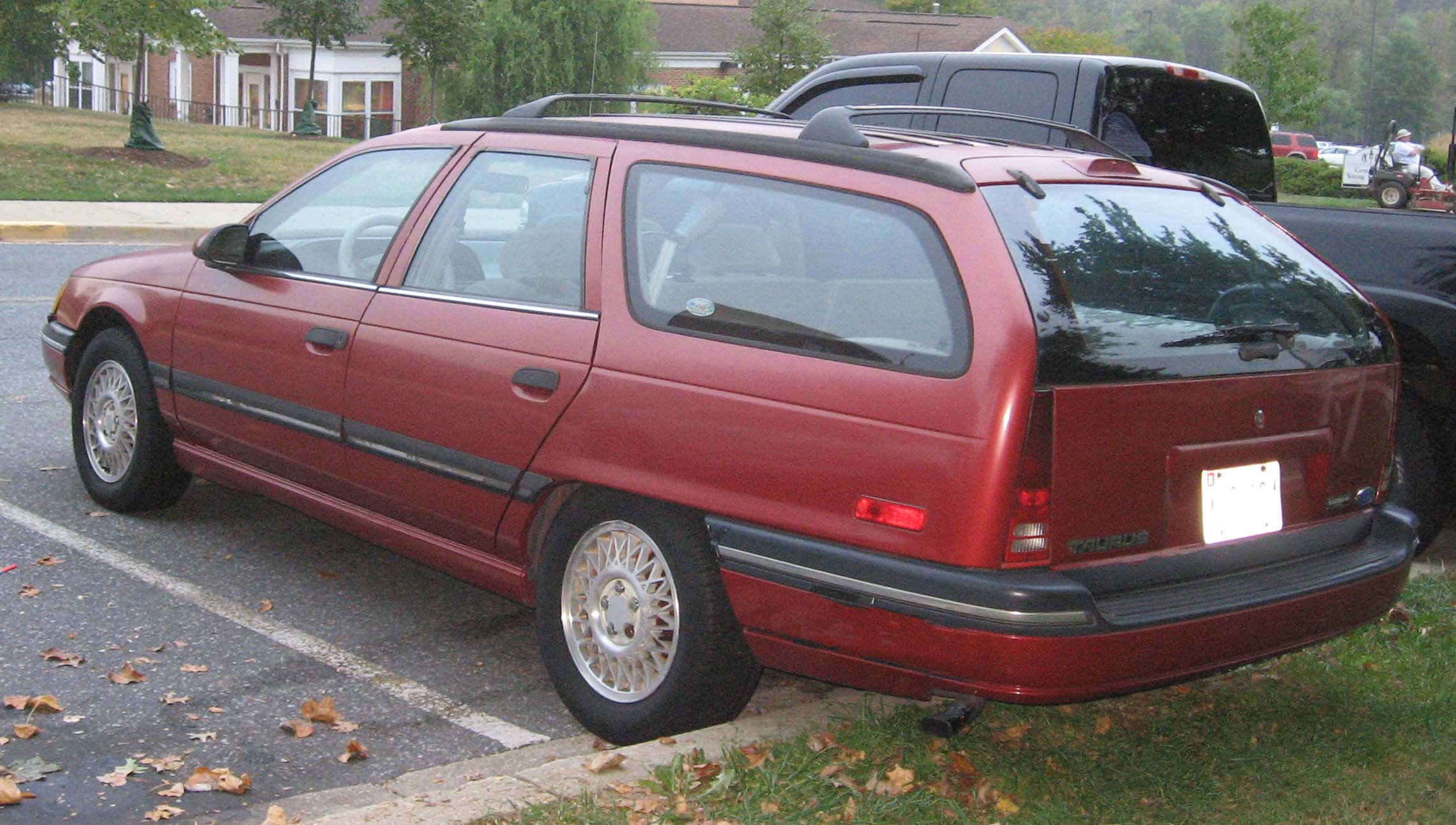 1989-1991 Ford Taurus photographed in College Park, Maryland, USA.